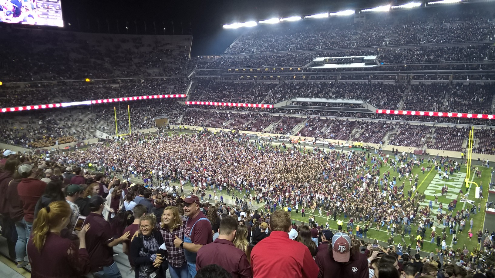 Fans storming Kyle Field after the winning touchdown in the 2018 LSU vs. Texas A&M football game